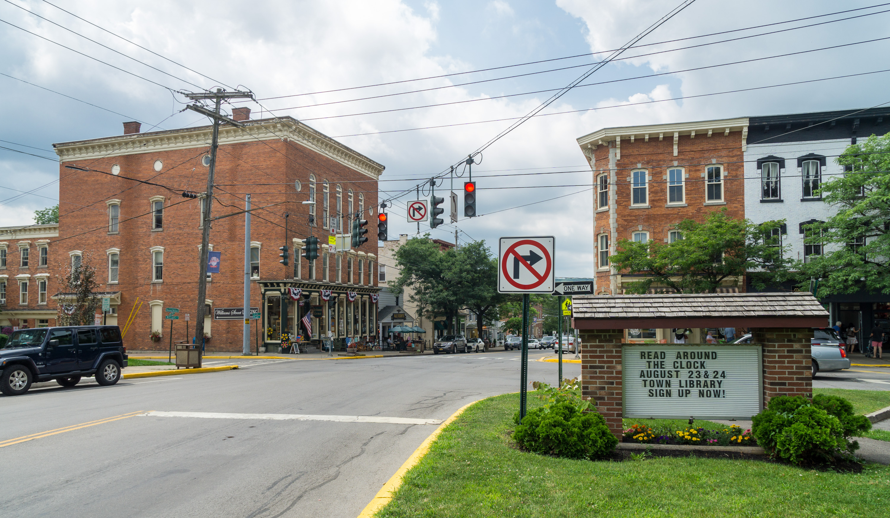 Center of downtown Clinton New York